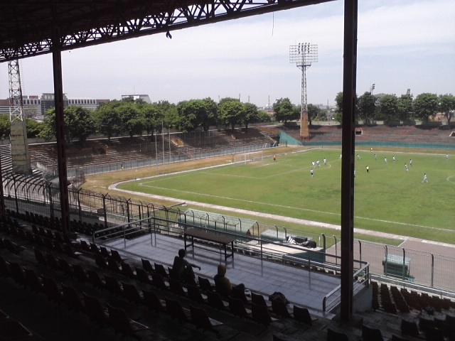 in tambaksari